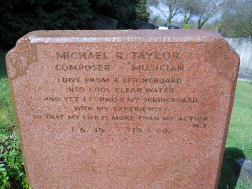 .......... as sharp as his music